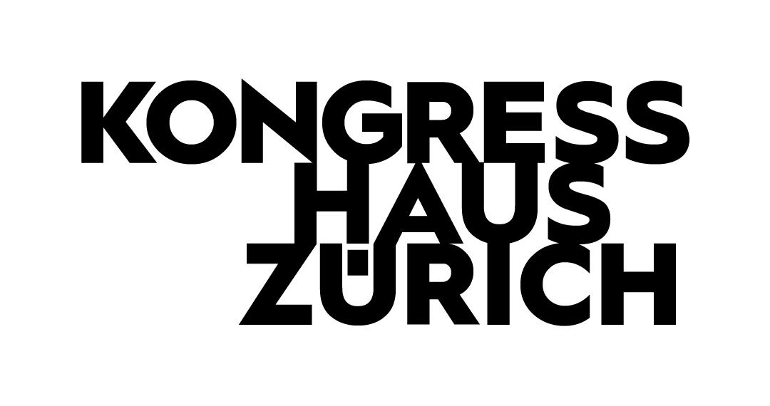 Logo Zurich Convention Center